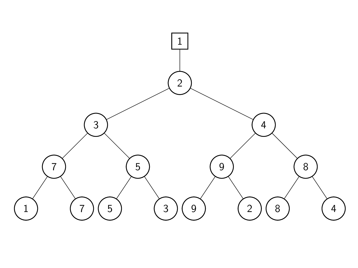 Example of a tournament tree that promotes the winners to the top but stores the losers in the nodes. Can be used for speeding up k-way merging. This example uses a min tournament tree. Therefore, the smaller element is the winner.